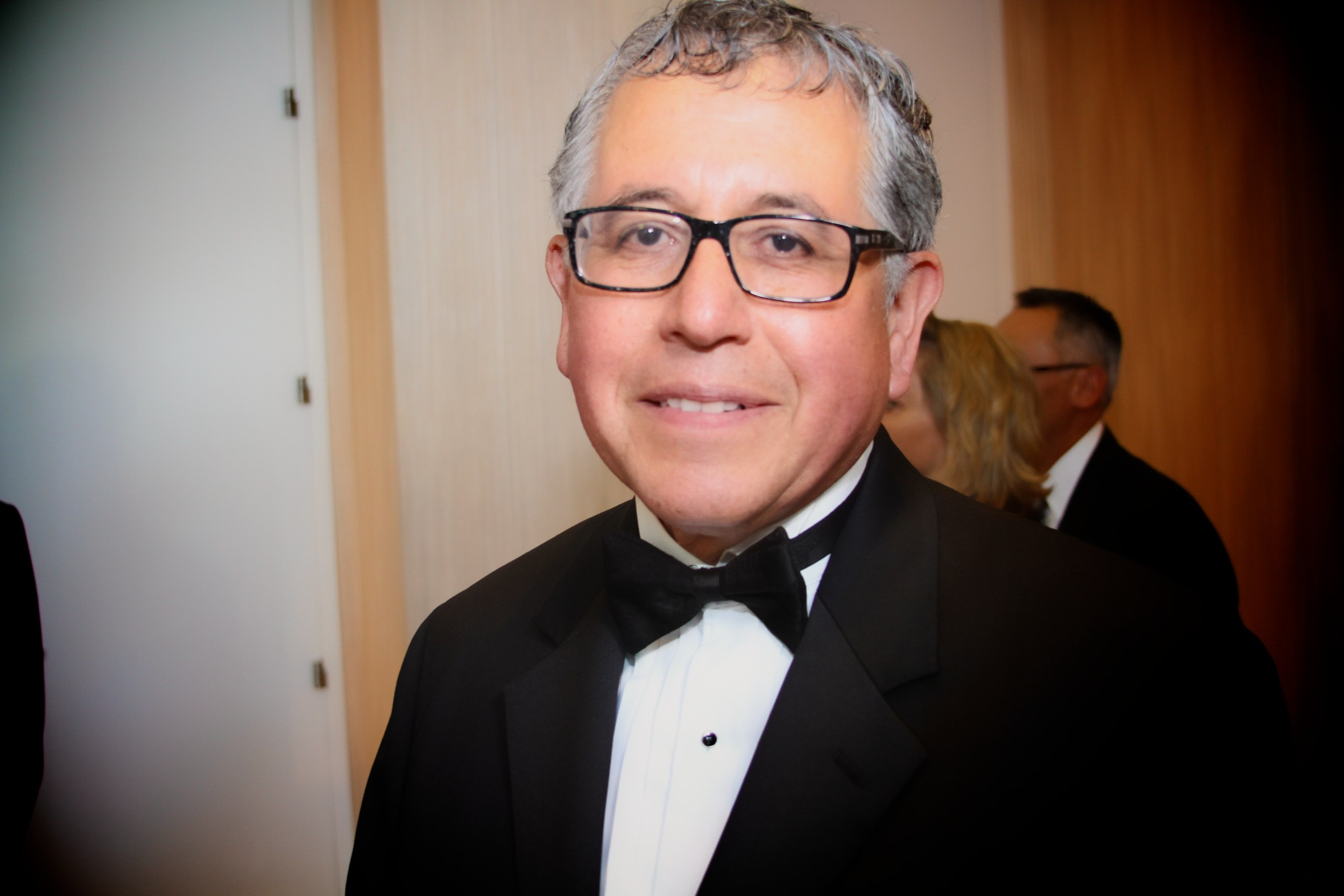 2013 Imagen Foundation Awards, Jesús Salvador Treviño